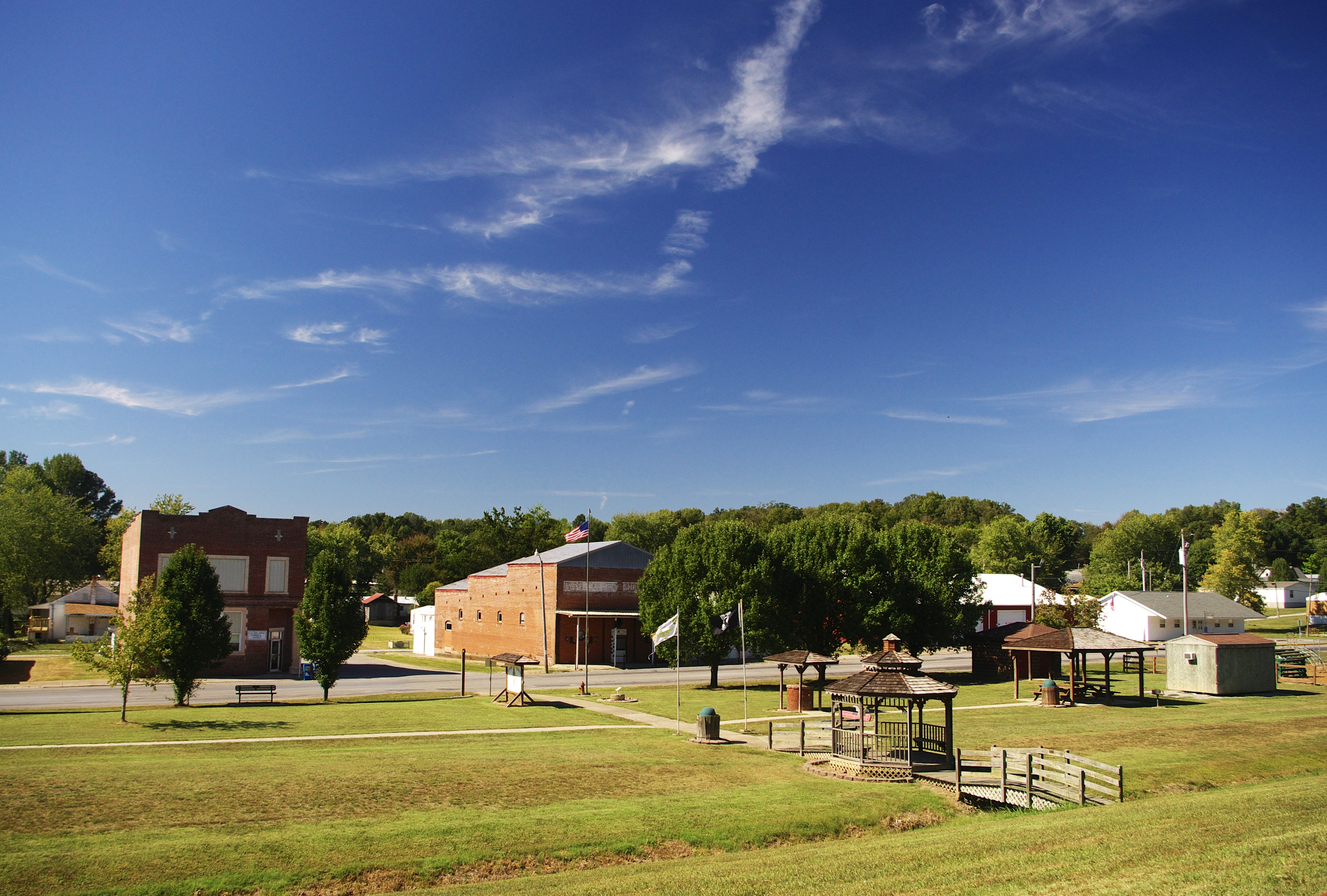 Cypress, Illinois, United States, viewed from Railroad Street.